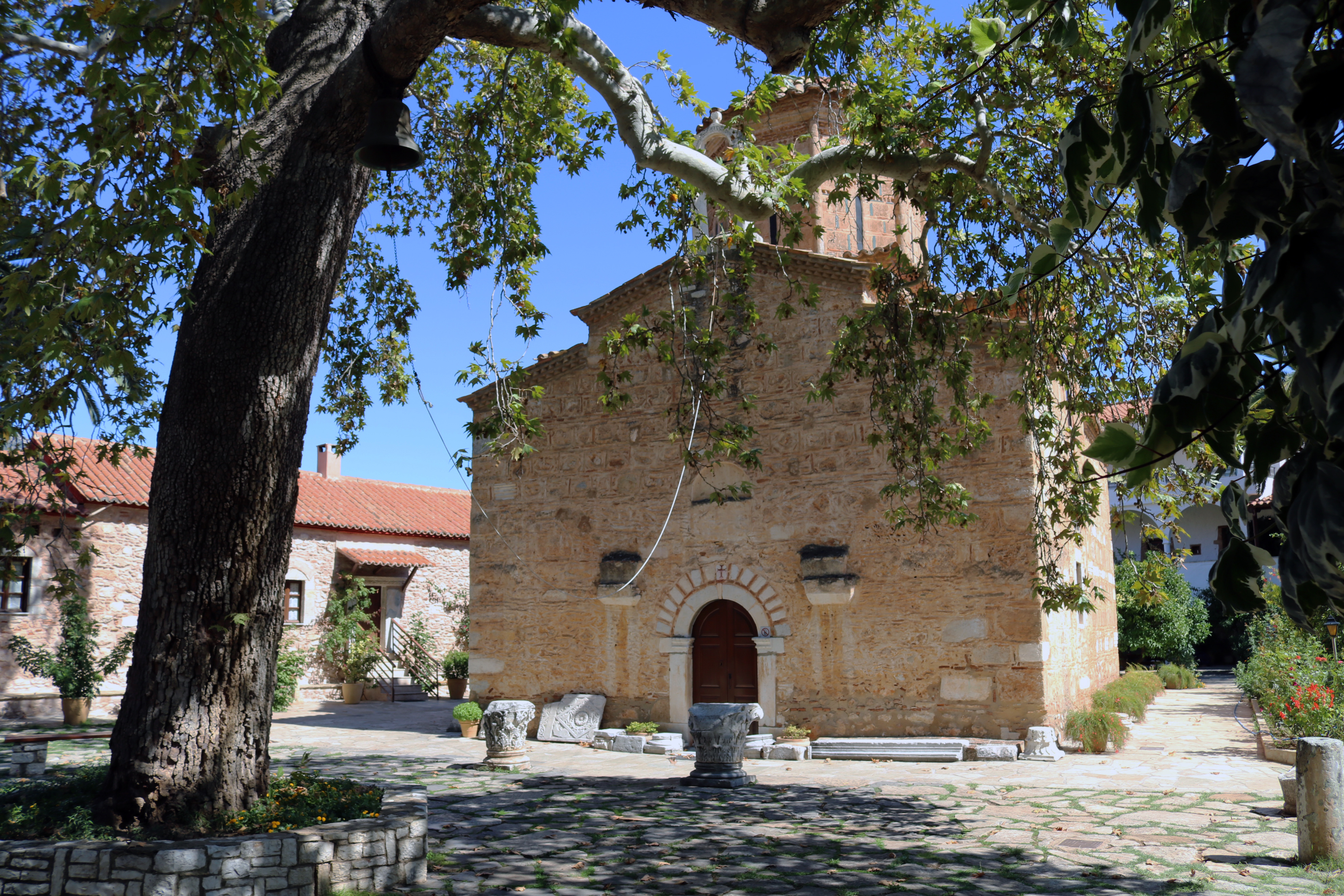 cross-in-square church, Loukou Monastery, west of Astros, regional unit Arcadia, Region Peloponnese, Greece